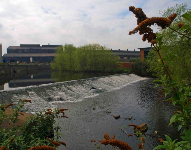 Brightside weir on the River Don Weir 2 from Meadowhall on the 5 weir's walk.